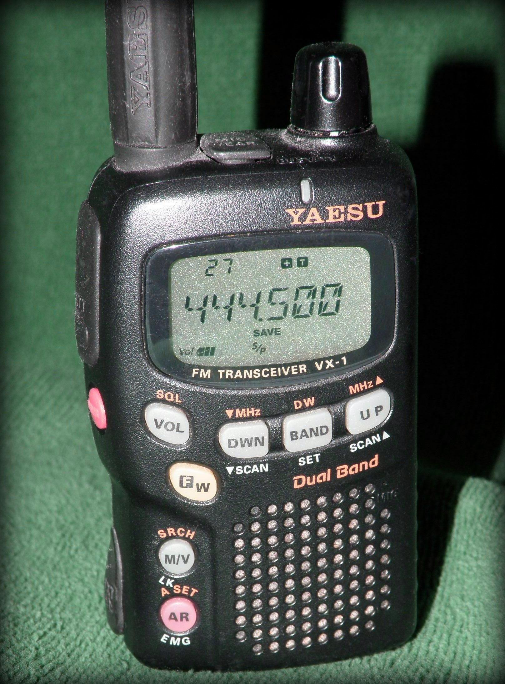 The Yaesu VX-1R is a micro-miniature 2 meter / 440 MHz handheld amateur radio transceiver with extensive receive frequency coverage, providing local-area two-way amateur communications along with monitoring capability. Receive range is: 0.5-1.7, 76-108, 108-999 MHz (less cellular). This means you can hear the AM and FM broadcast bands, TV audio, aircraft and public service channels. Power output is 0.5 watts with battery or 1 watt with external power adapter. Includes lithium ion battery and 80 minute rapid charger and SMA antenna. This HT is only 3-3/16 x 1-7/8 x 1 inches.